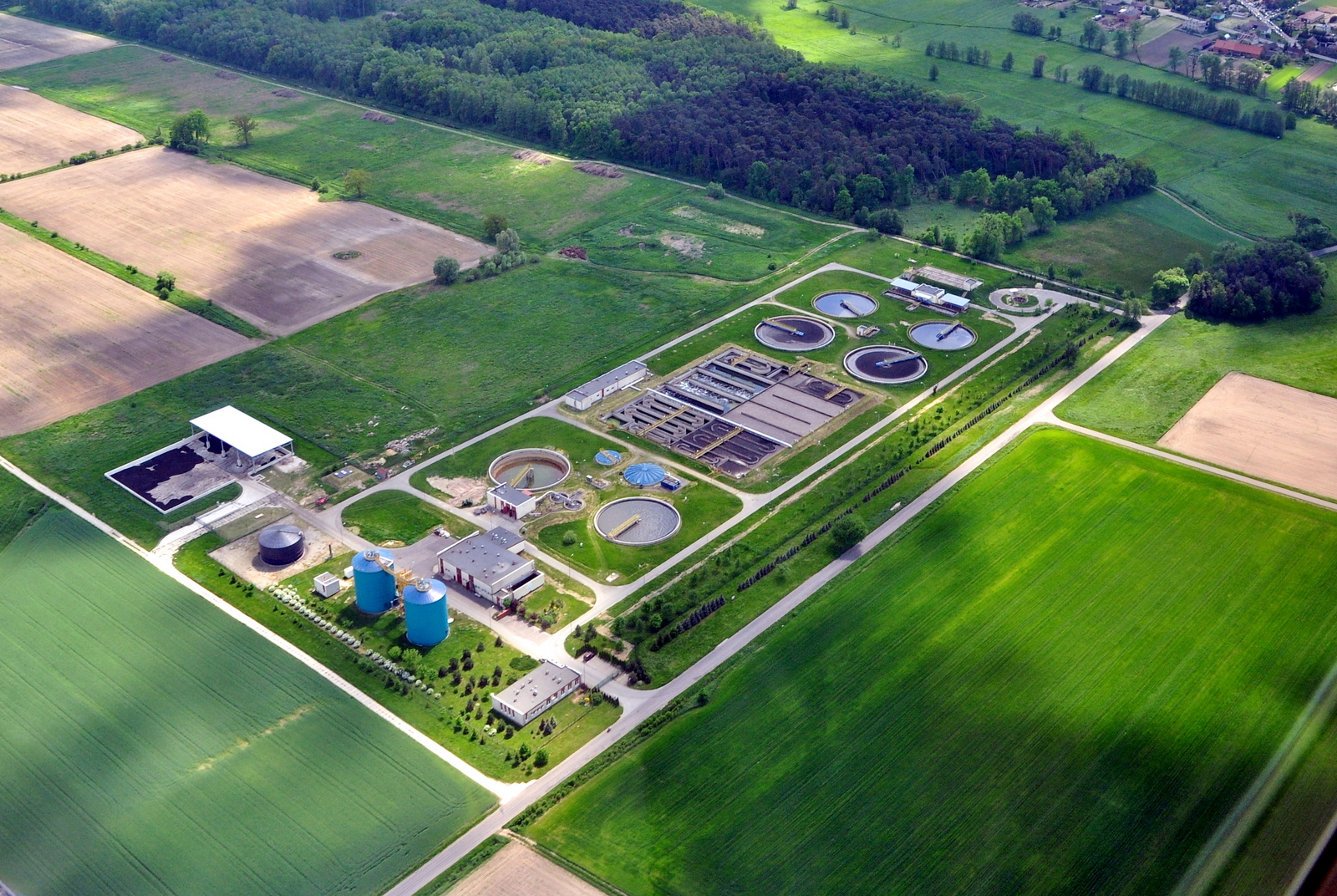 Conventional municipal wastewater treatment plant in Rąbczyn, Ostrów Wielkopolski County